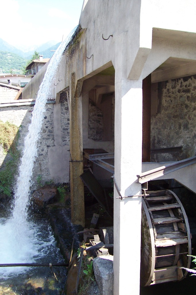 Bienno, Val Camonica